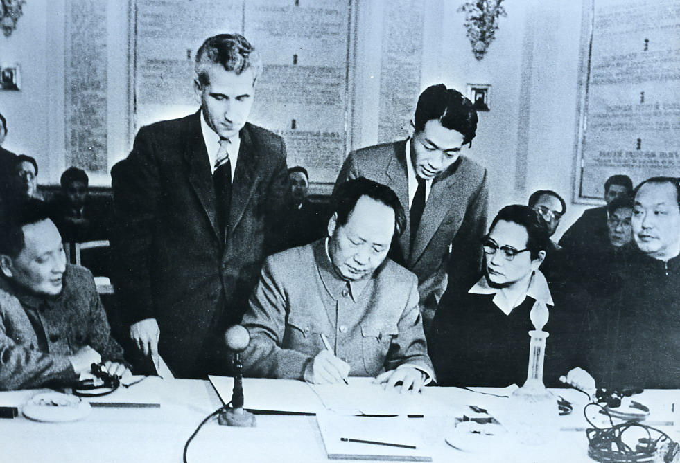 Mao, Soong and Deng were at International Meetings of Communist and Workers in Moscow.